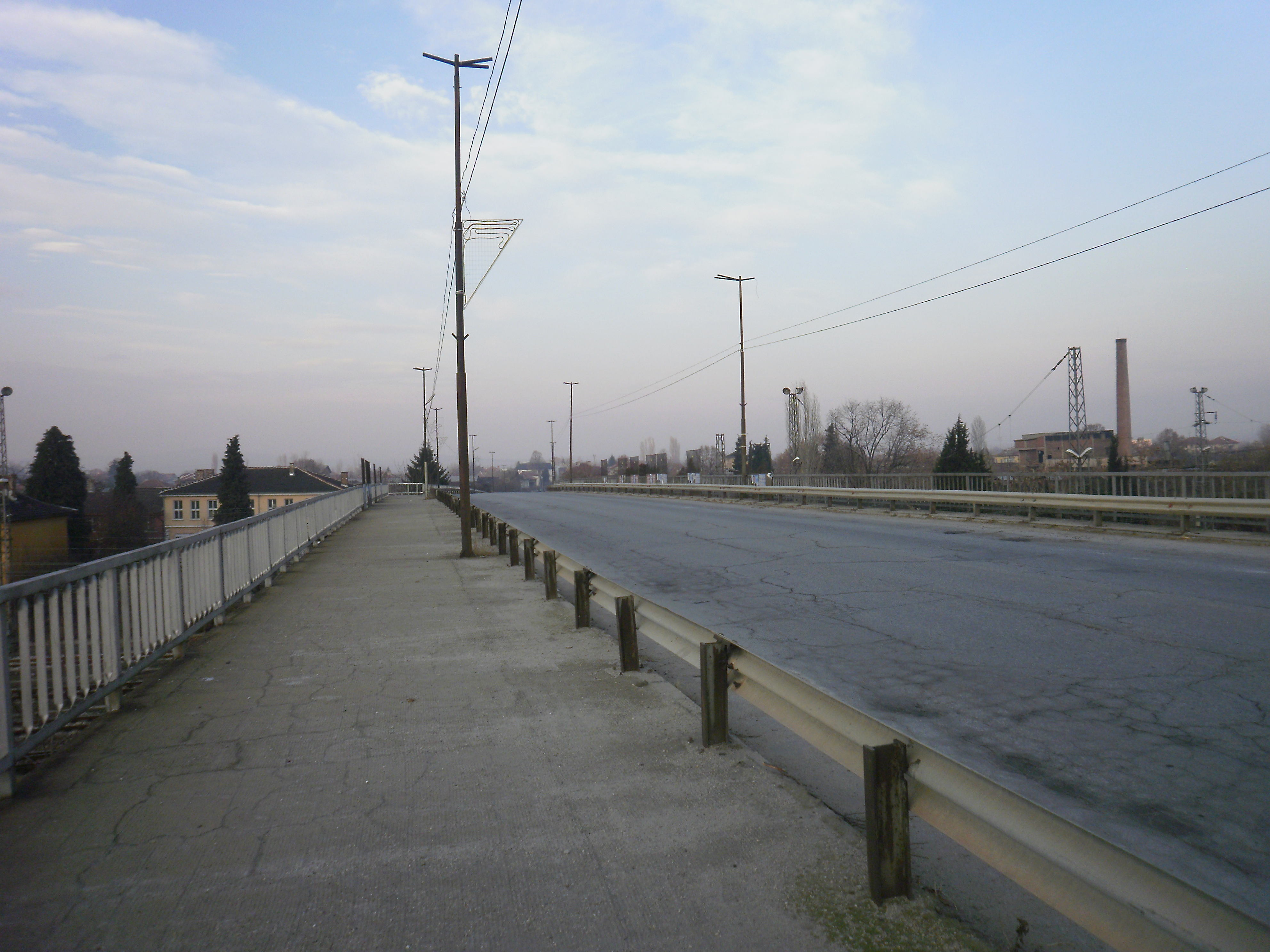 Road 8402, Bulgaria